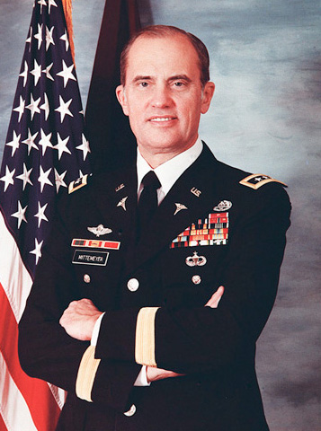 Lieutenant General Bernard T. Mittemeyer, Surgeon General of the United States Army, 1981-1985